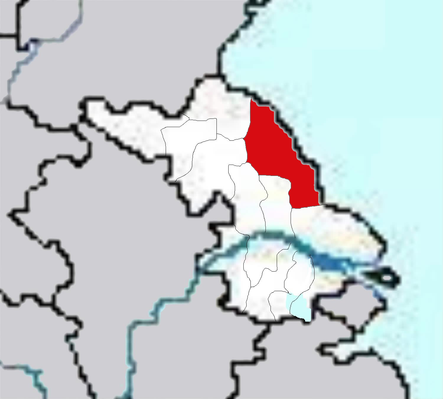 Maps of Jiangsu Province , China